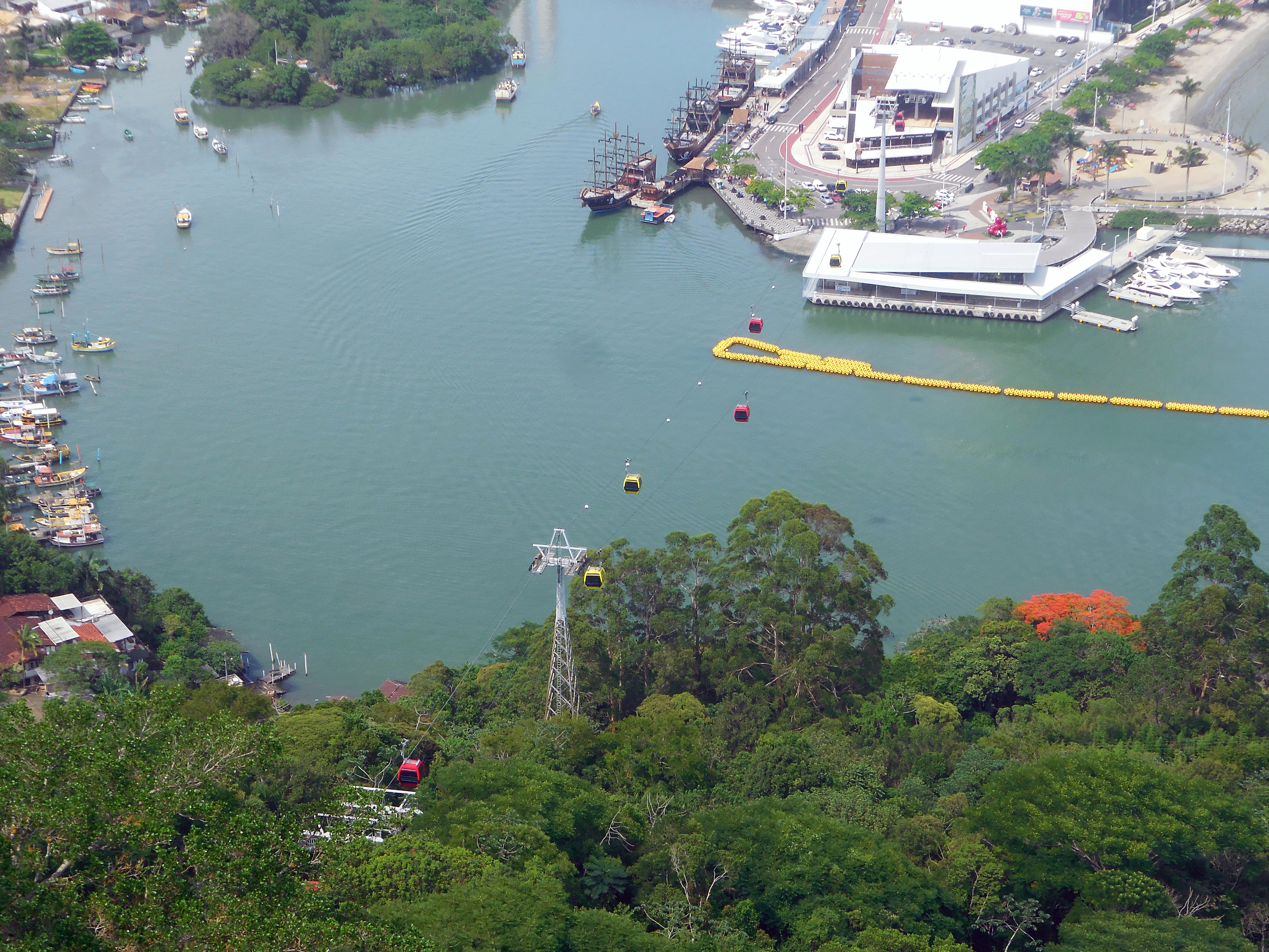 Cableway of the Unipraias park on the Camboriú River, in Balneário Camboriú, Santa Catarina, Brazil.